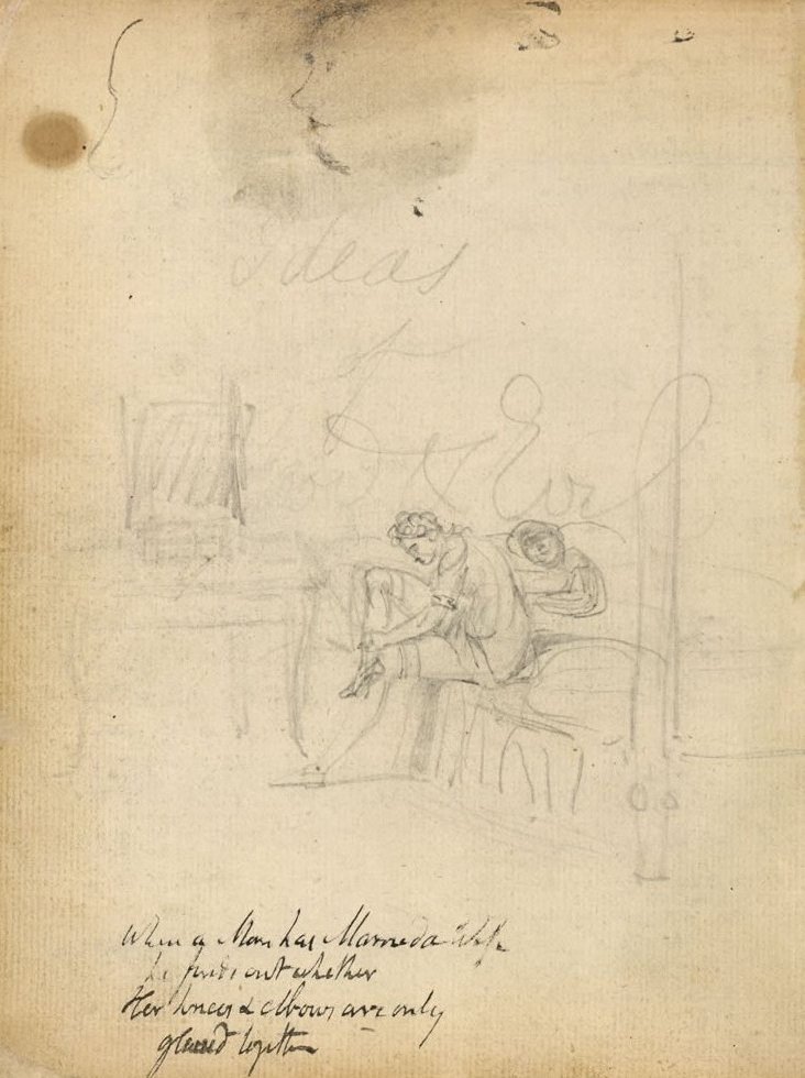 Blake manuscript - Notebook - page 004- On folio N14 Blake has created a simple scene showing a man and woman rising from bed. This sparsely furnished room may have been Blake's own, and some commentators have dated this sketch to the year of Blake's own marriage in 1782. It is, however, more probable that Blake is parodying James Gillray's 1788 cartoon, 'The Morning after Marriage', a humorous depiction of the secret marriage of the Prince of Wales and Mrs Fitzherbert. The drawing partly obscures an earlier line of text - 'Ideas of Good & Evil' - that serves as a title for the series of sixty-four emblems that follow (folios N14-N101). From these emblems, Blake chose seventeen designs that he engraved and published in For Children: The Gates of Paradise (1793), and some of the remaining designs were adapted for Songs of Experience (1794). It is thought that the first emblem to be entered in the notebook dates from 1787, and is found on folio N75. Although, strictly speaking, an emblem is a tripartite form combining a motto, a symbolic picture, and an epigram, the whole intended to be read as the expression of an overarching truth, we employ it here in its more general sense as the integration of text and image. At the top left of folio N14 is a pencil sketch; though a mere suggestion, it looks like the beginnings of a self-portrait, with the line of the brow reminiscent of Blake's own. Adjacent to this is another man's profile sketched in pencil. There is an element of shading around the eyes and mouth.